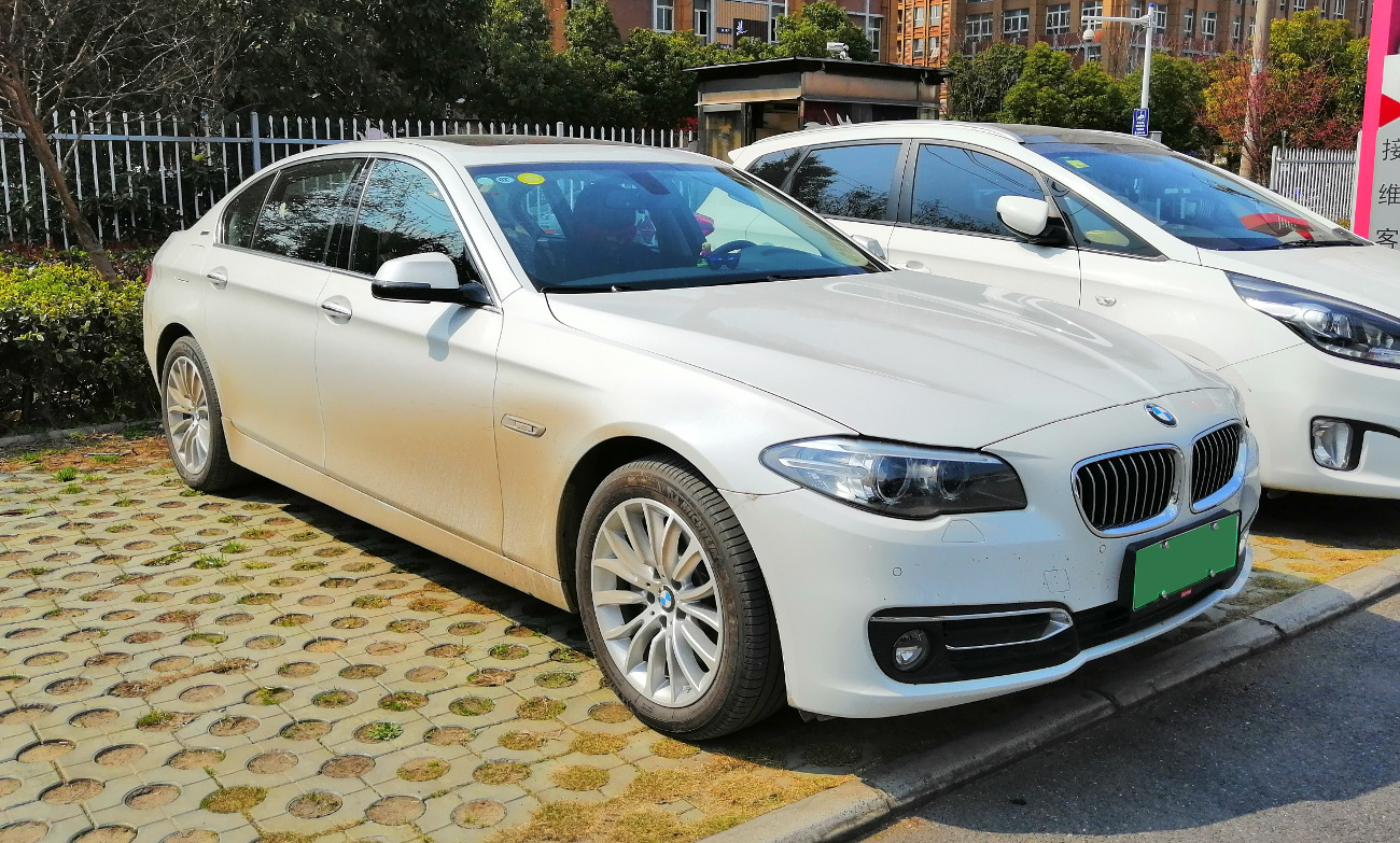 BMW 5-Series F18 Le photographed in Hefei, Anhui province, China.